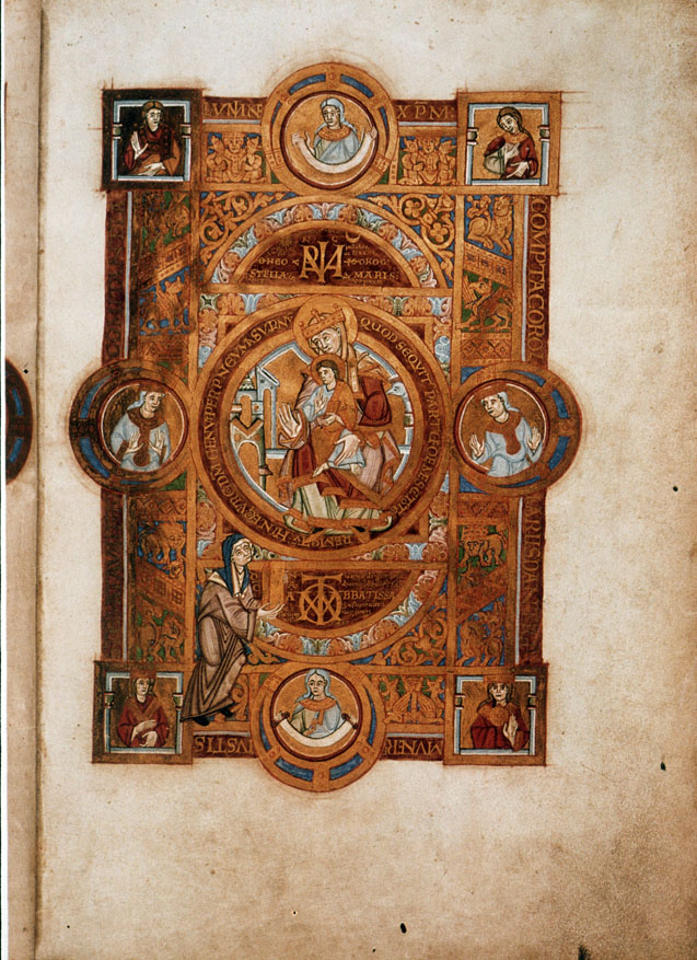 Uta Codex (Uta Presents the Codex to Mary), c. 1020, Munich, Bayerische Staatsbibliothek, Clm. 13601, folio 2, recto